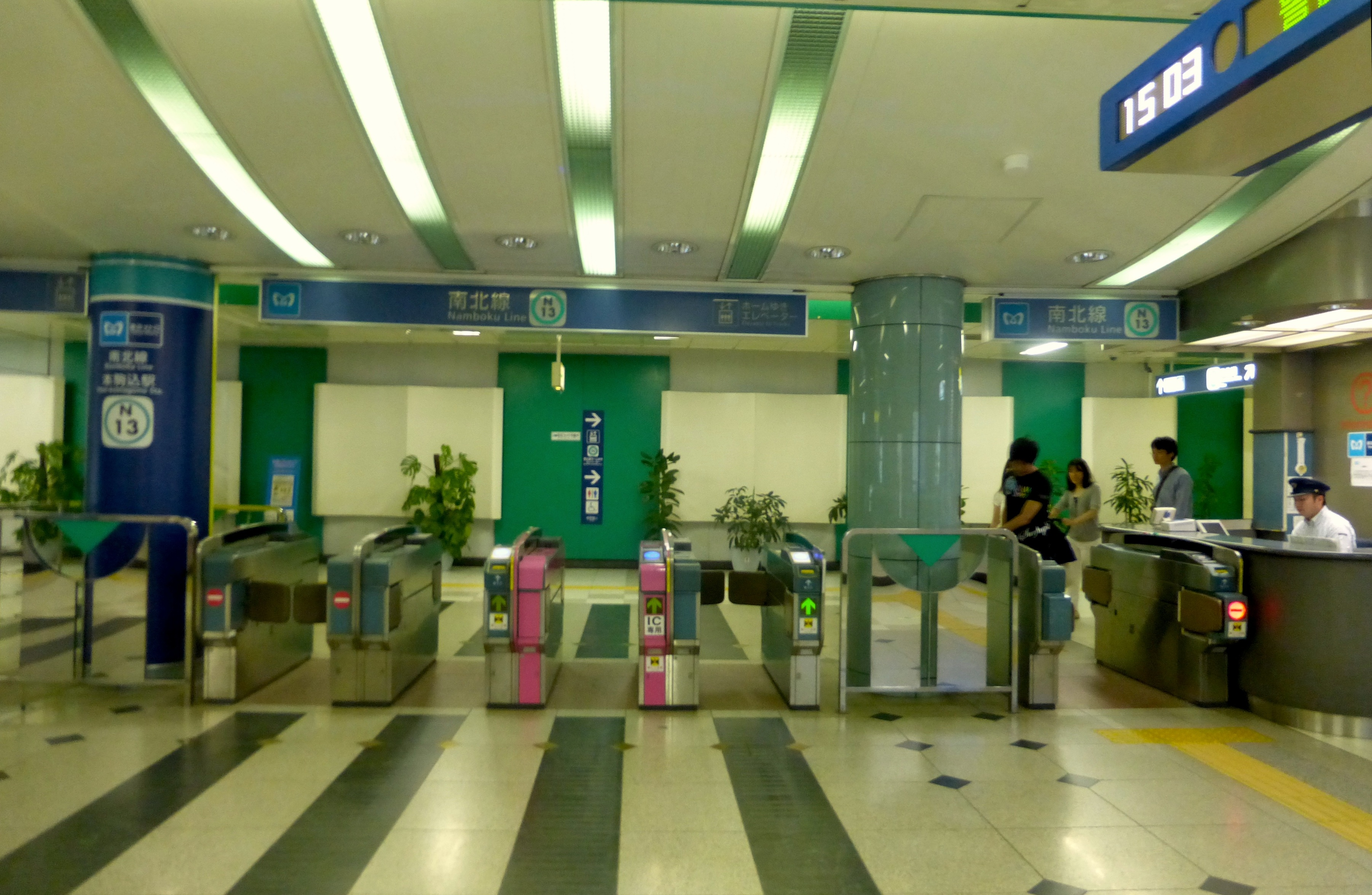 The ticket barriers at Hon-Komagome Station, viewed from the outside